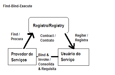 Find - Bind - execute paradigm, for wikipedia pt. Drow by me